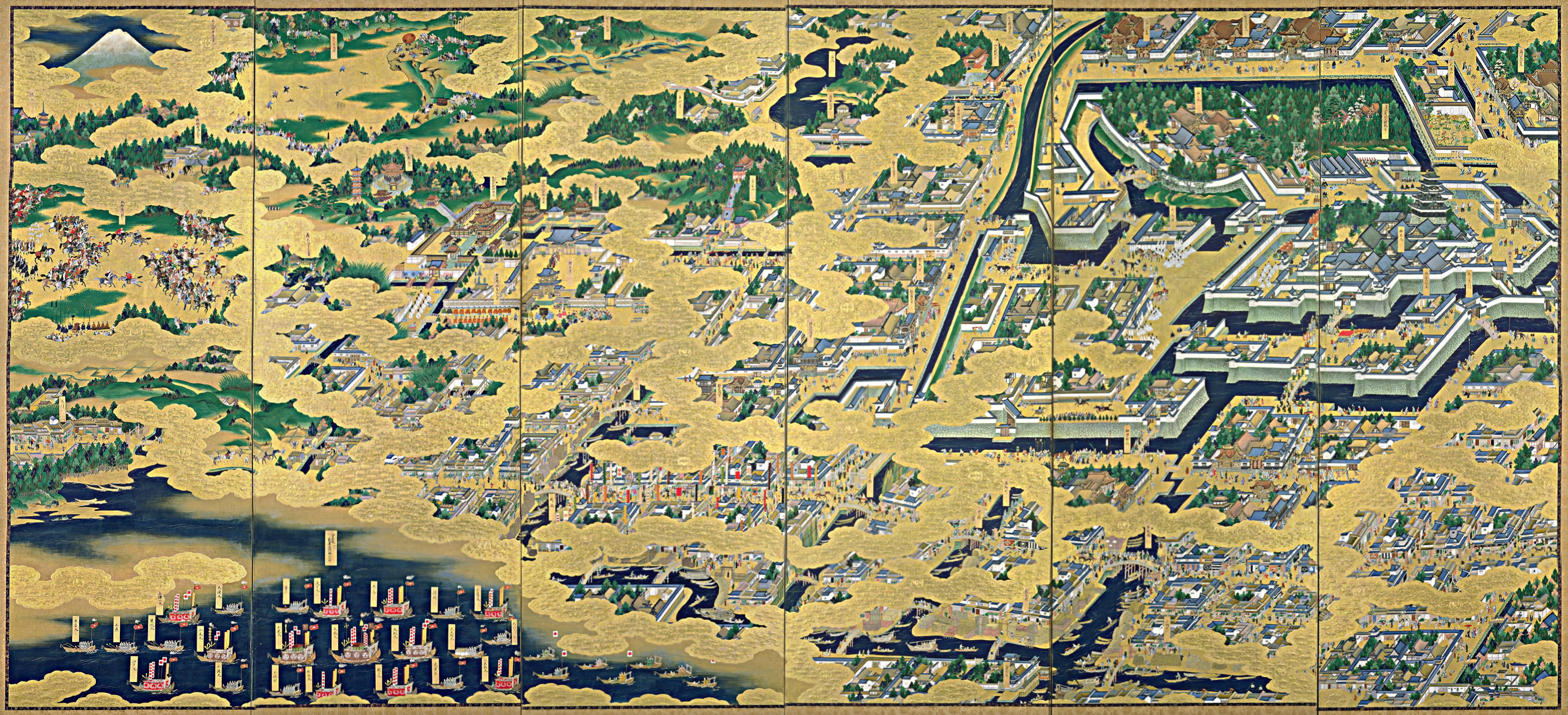 "View of Edo" (Edo zu) pair of six-panel folding screens (17th century). Upper right corner Edo Castle.